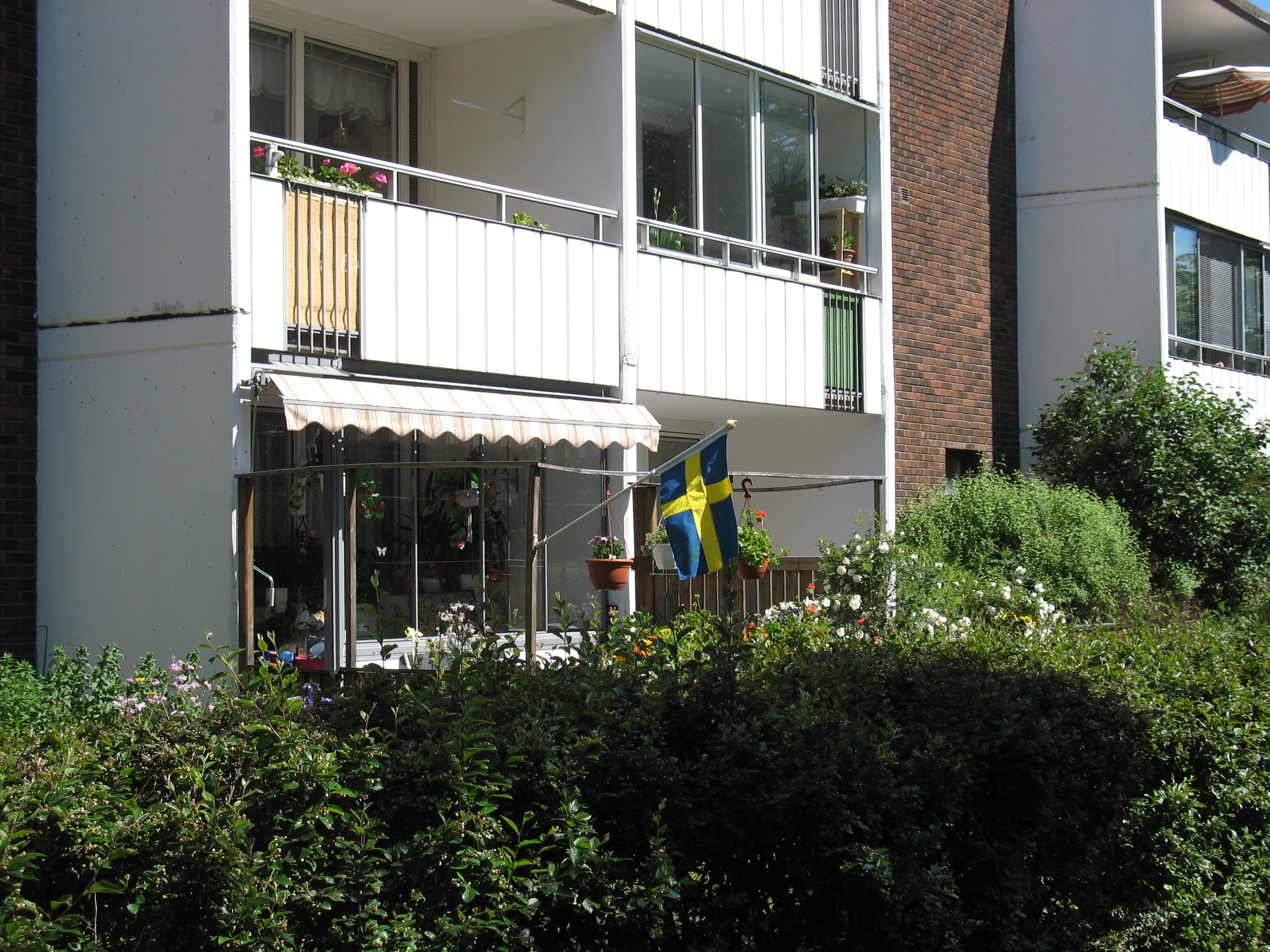 A Swedish flag is flown outside a private home in Jakobsberg, north of Stockholm, Sweden on National Day.